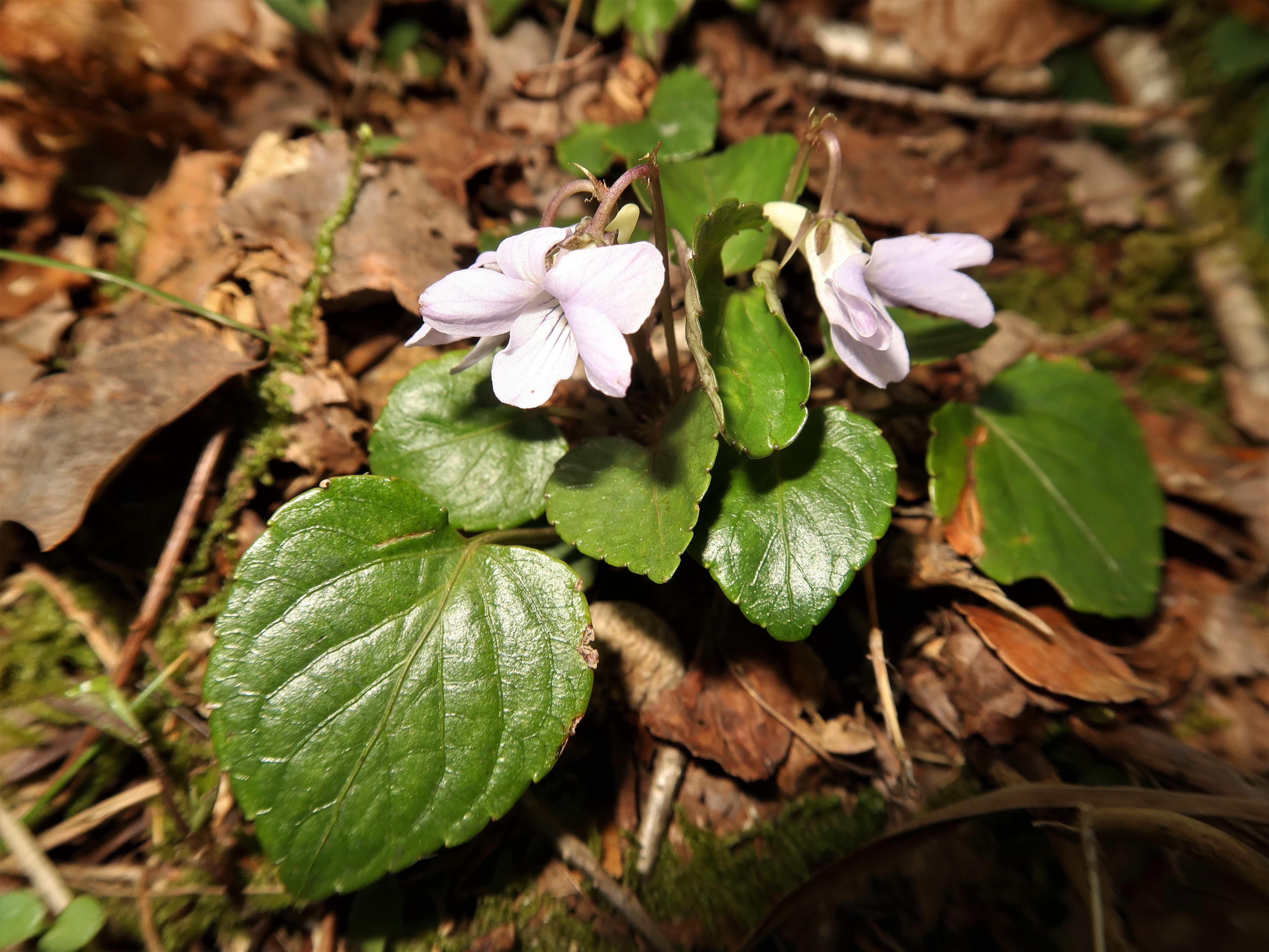 Viola faurieana, Aizu area, Fukushima pref., Japan